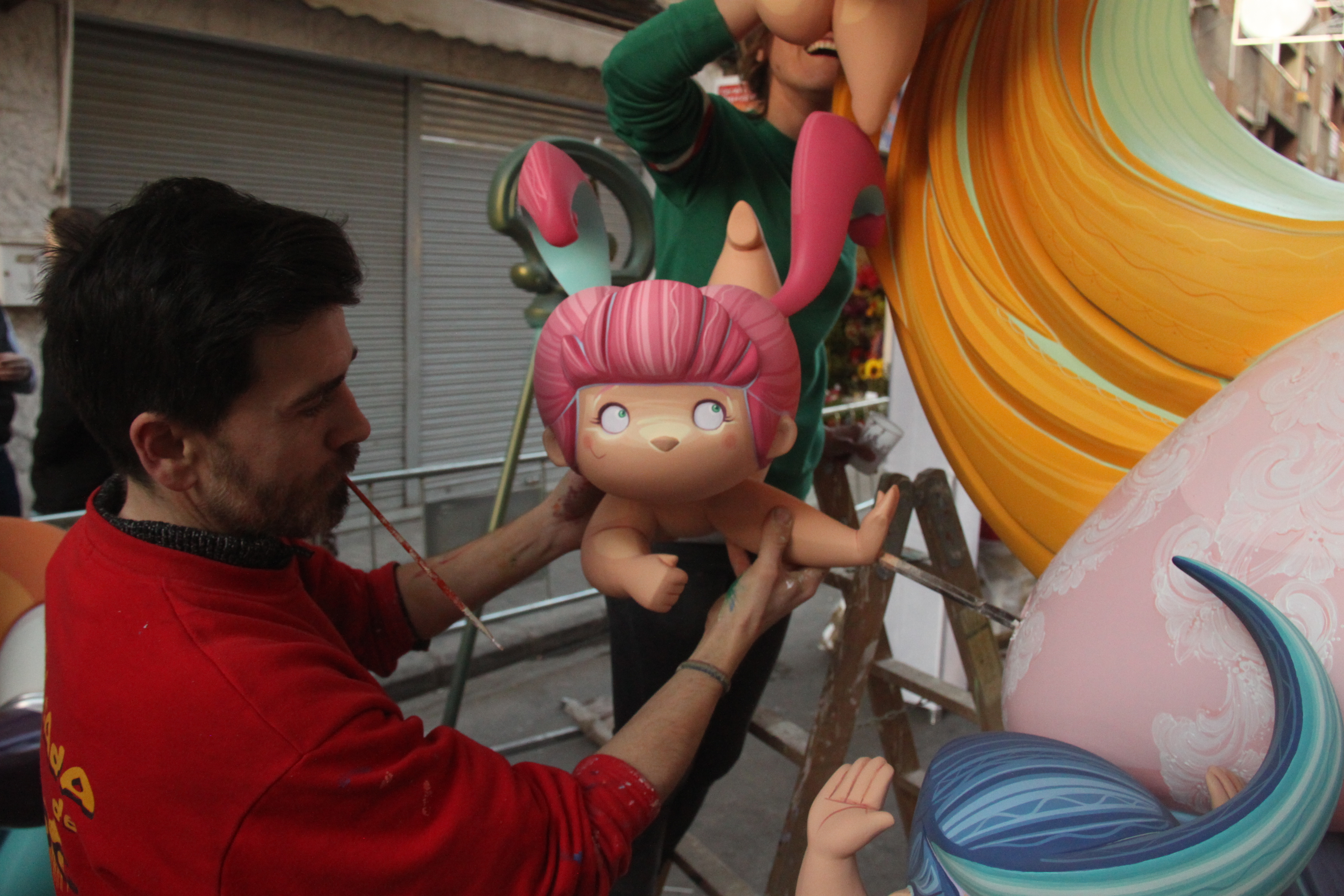 A Falles artist woring on his Falla